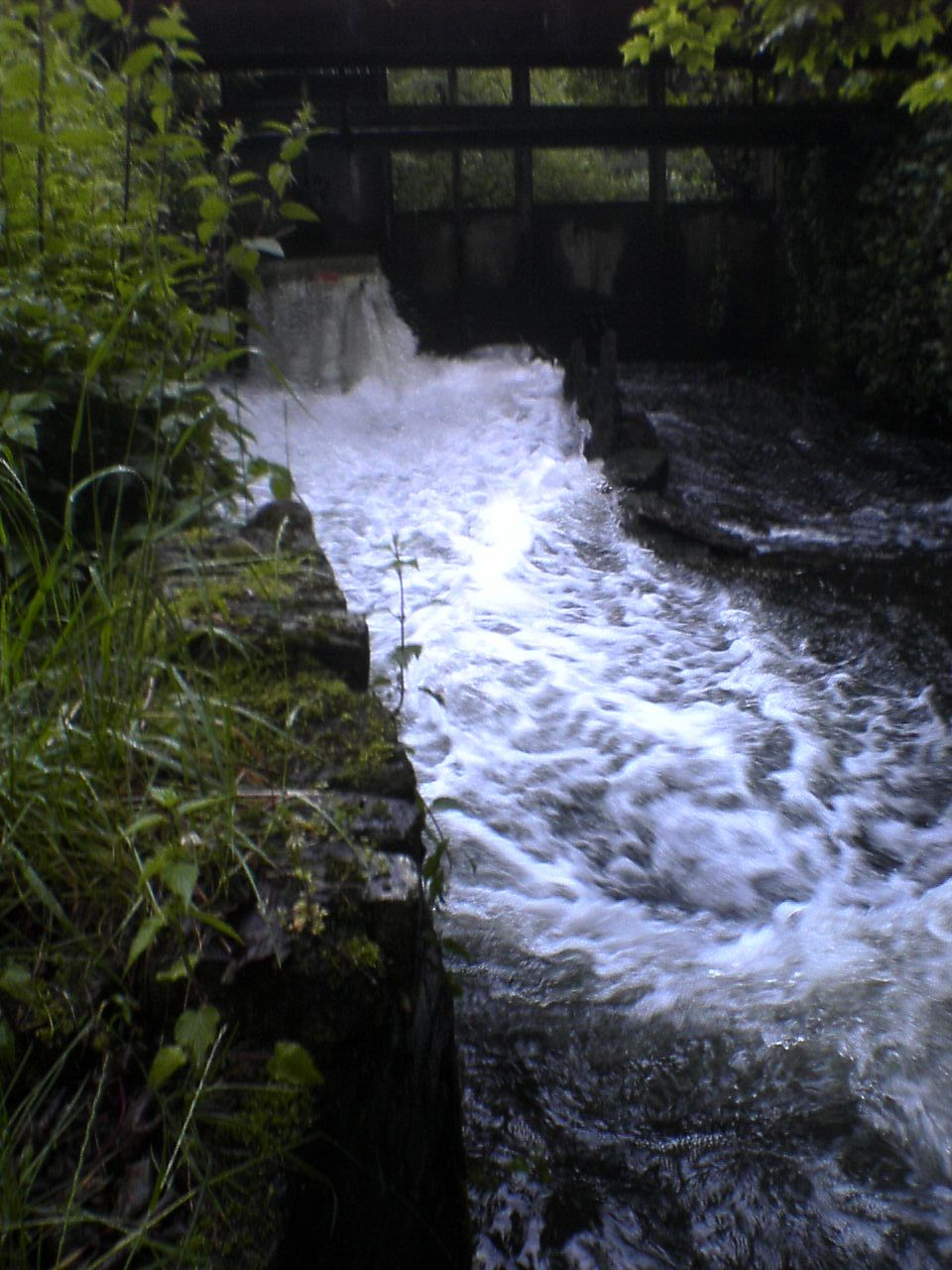 Jamsta 21:59, 27 September 2006 (UTC)